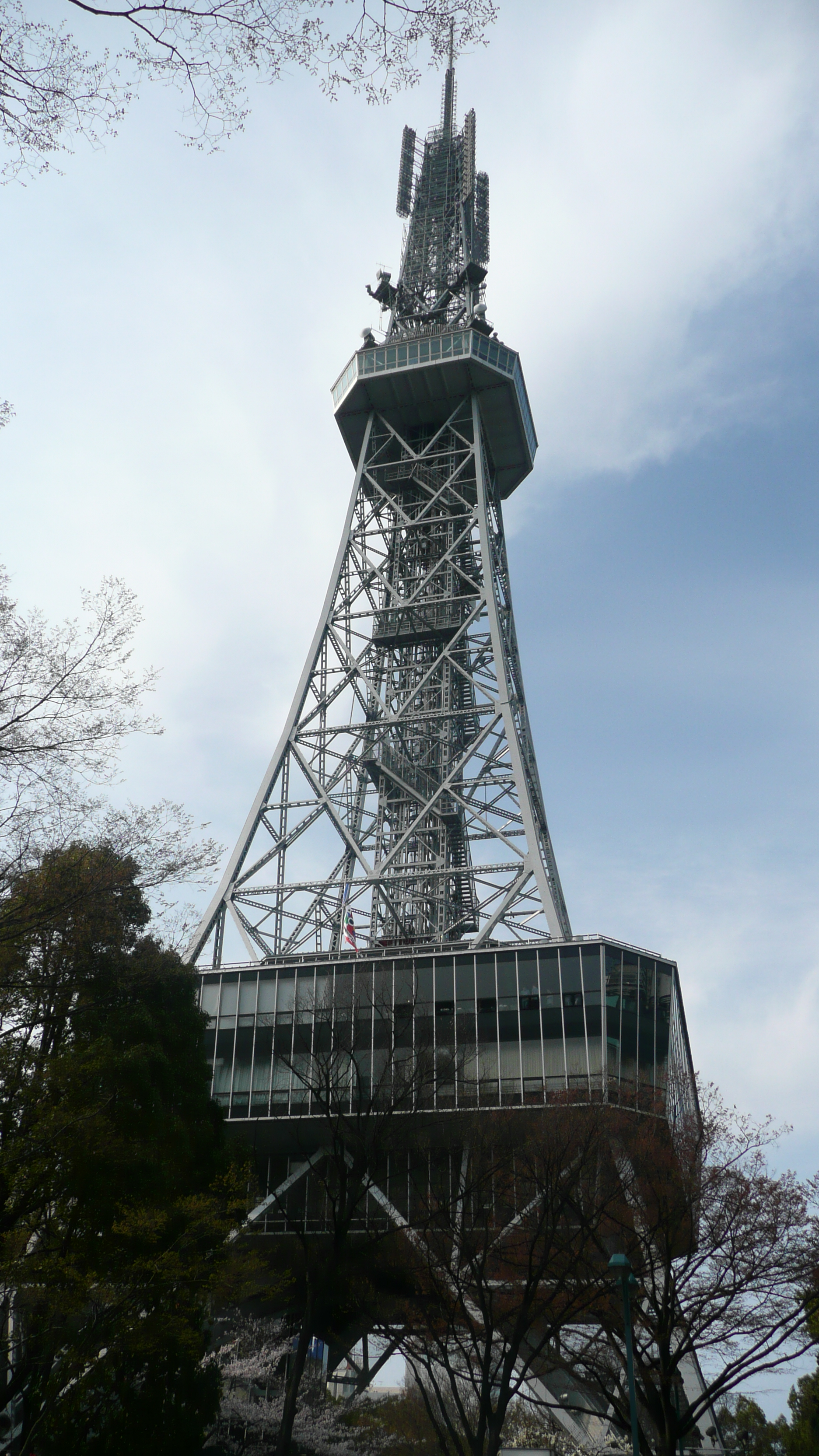 Nagoya TV Tower, Japan